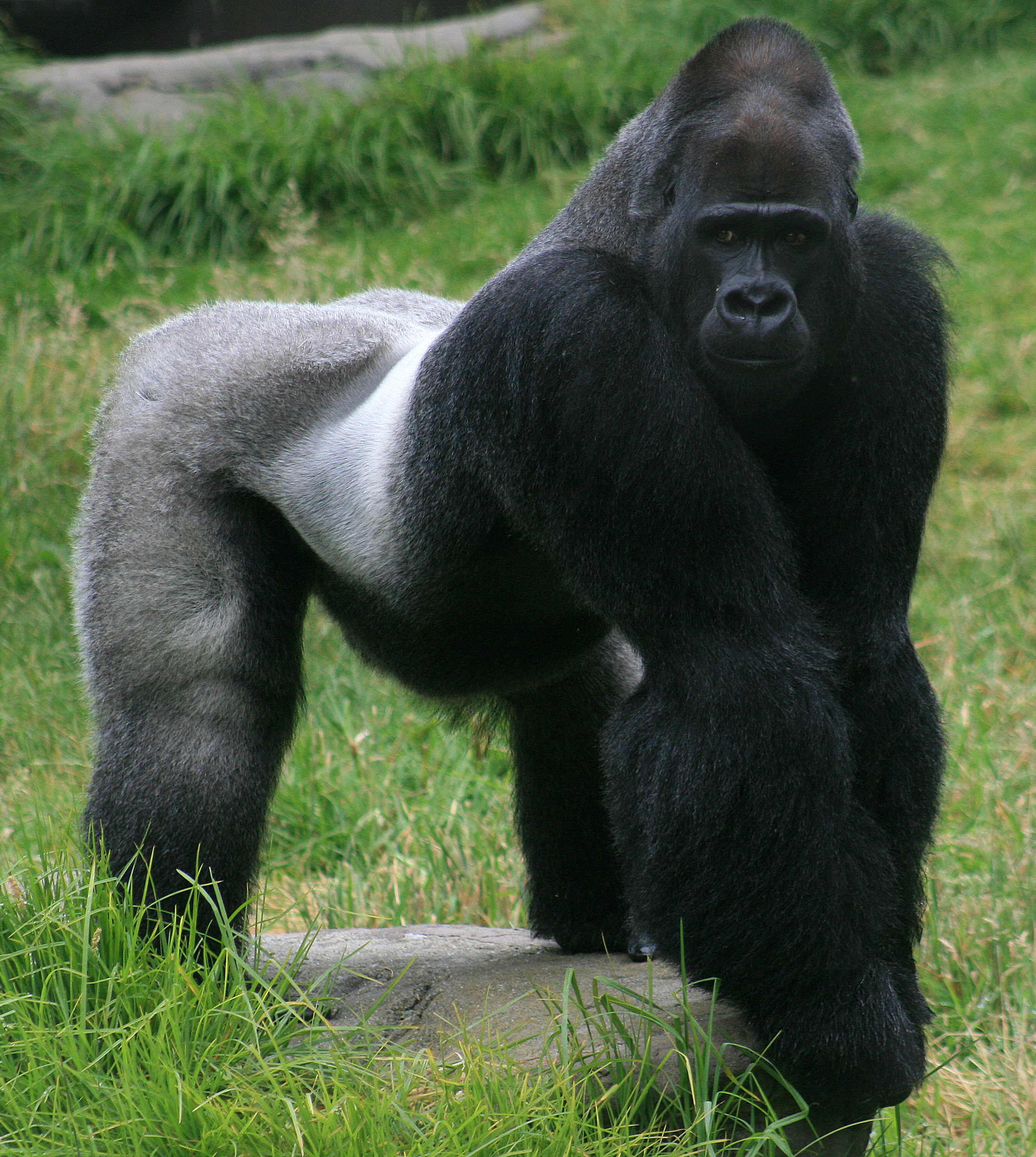 Male silverback Kareš, Gorilla gorilla in SF zoo